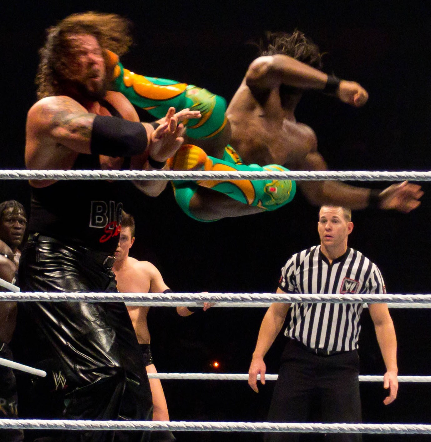 Kofi Kingston dropkicks Kevin Nash at a WWE Raw house show in London on November 11, 2011